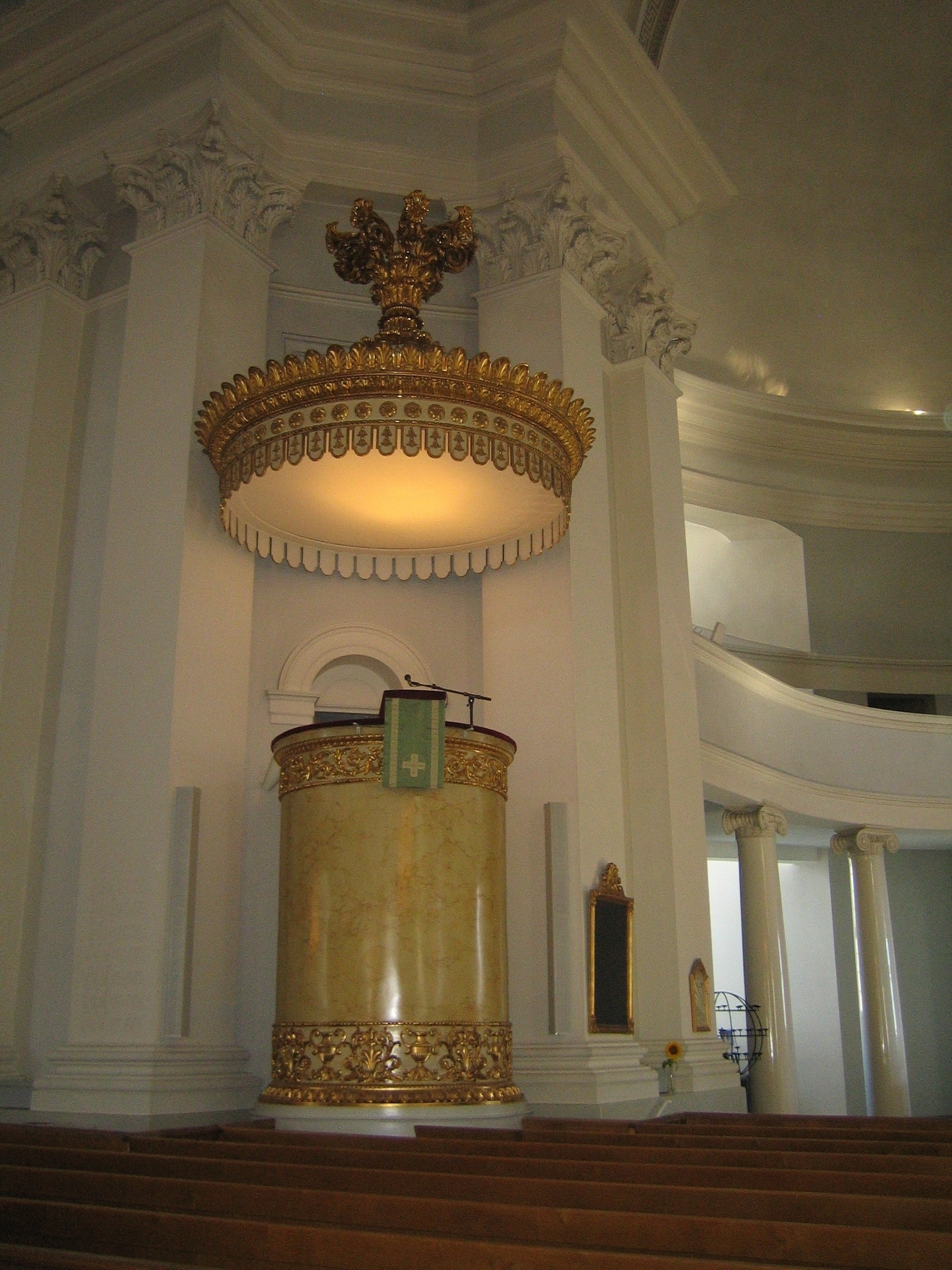 Pulpit of the Helsinki Lutheran Cathedral